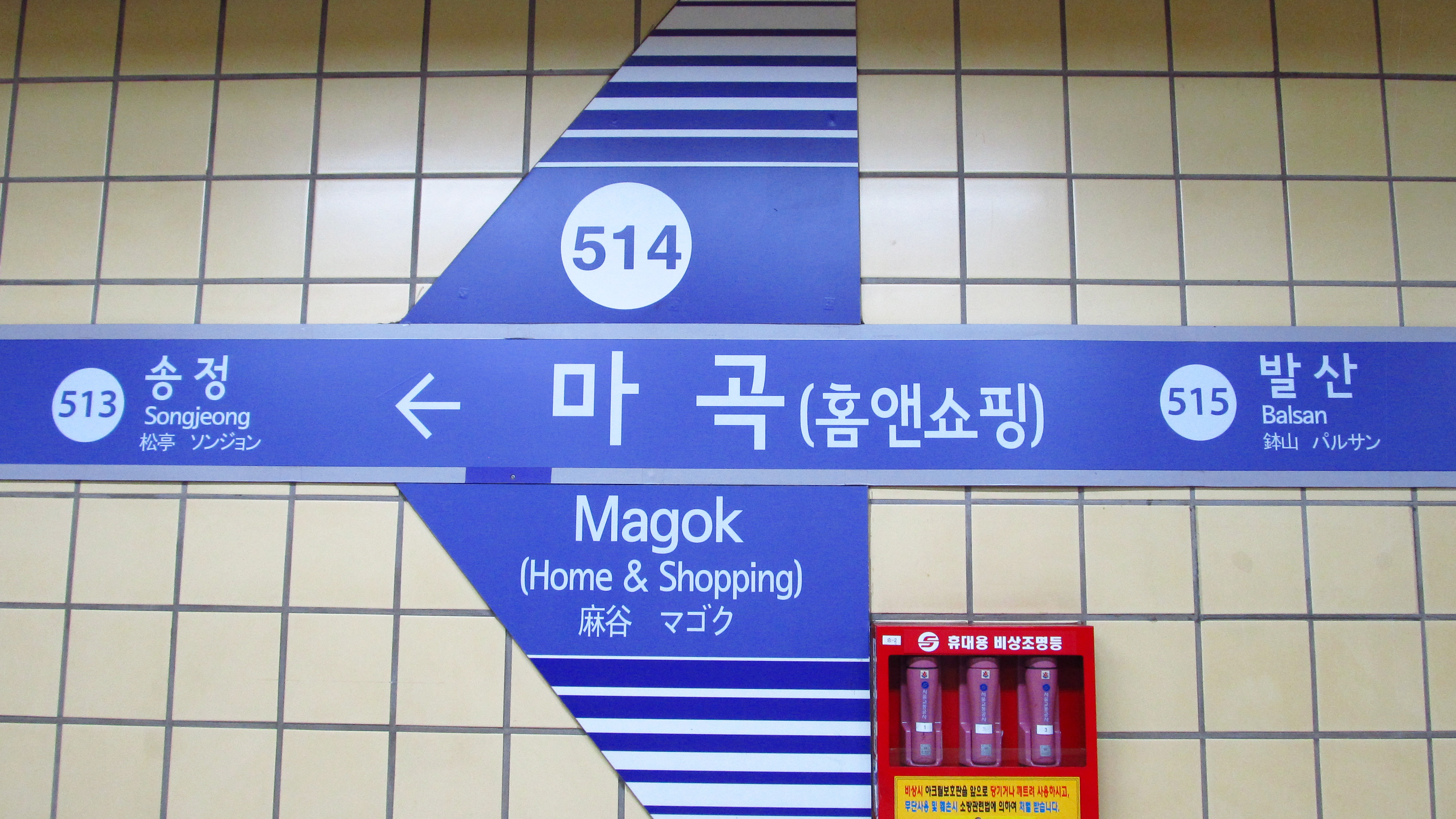 A sign of Magok Station on Seoul Subway Line 5